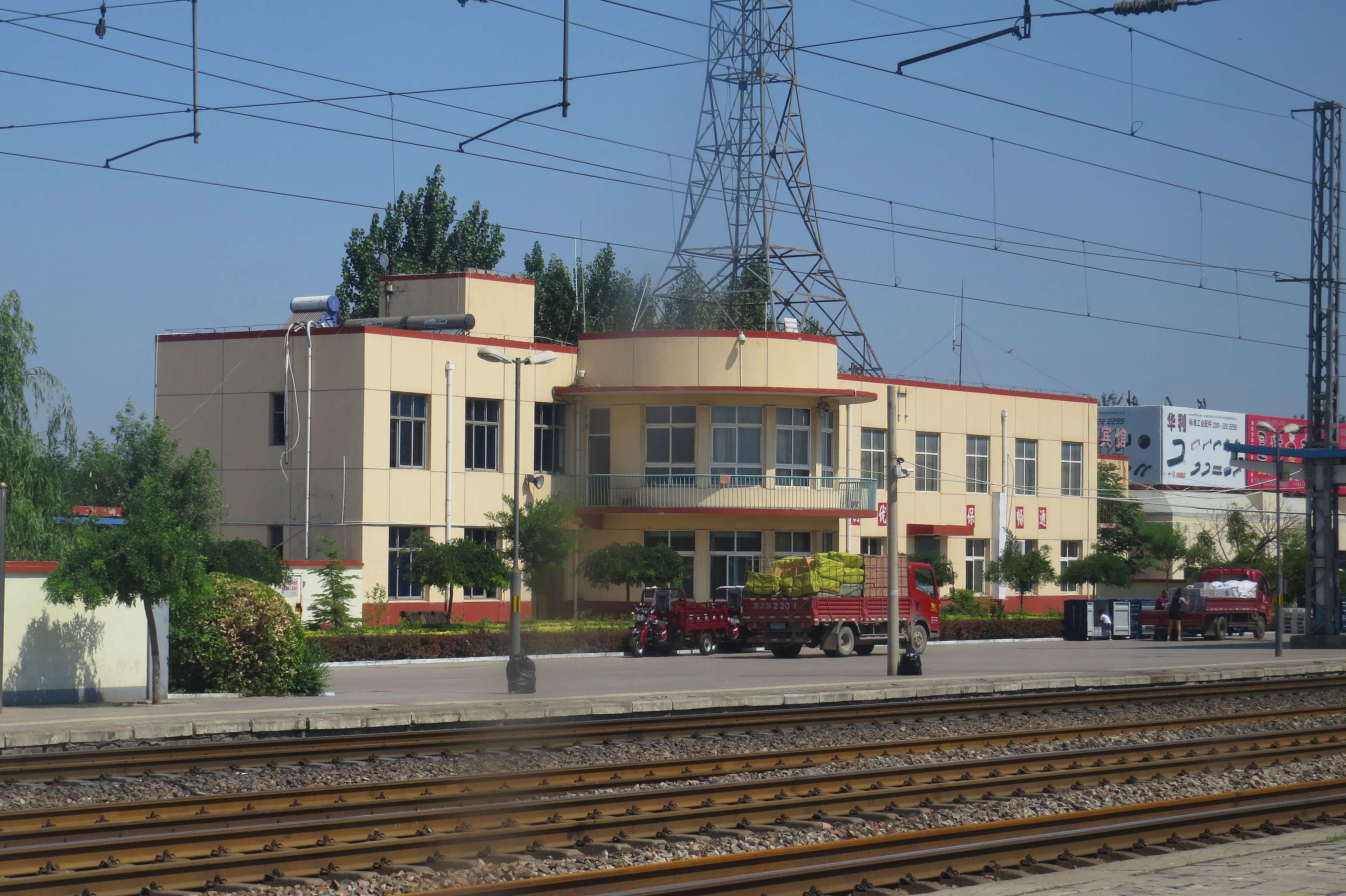 Operation room.